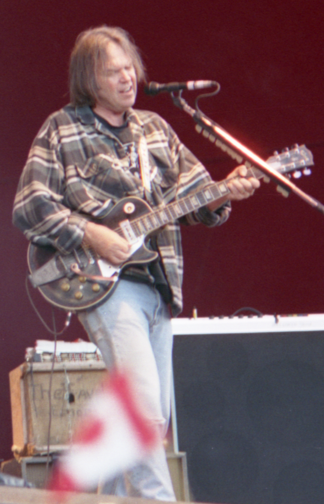 Neil Young in Ruisrock Festival, Turku, Finland 1996